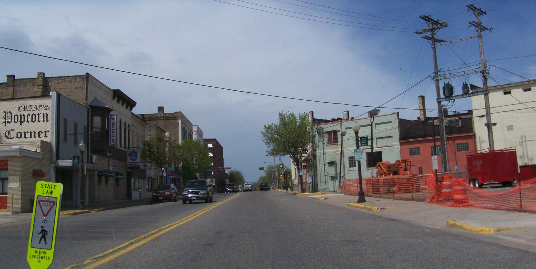 Looking north at downtown Portage, Wisconsin, USA.